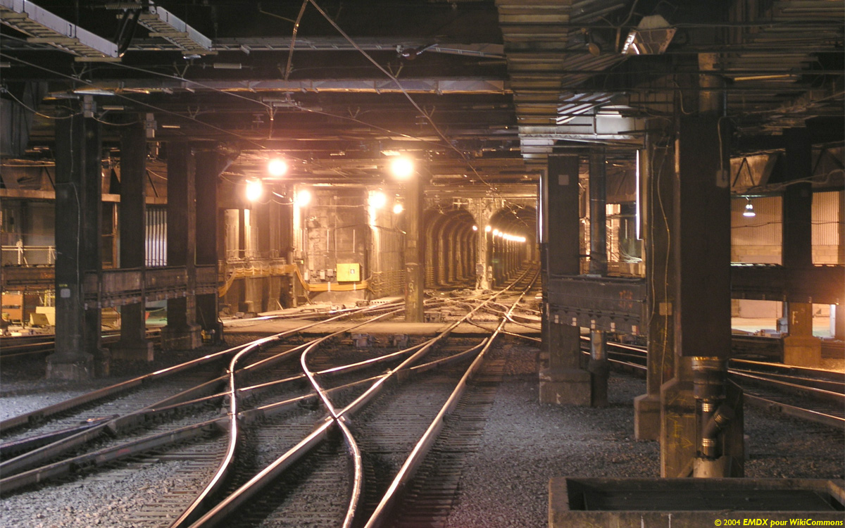 Mount Royal Tunnel’s southern portal (“Ville-Marie” CN station, formerly “South-Portal” station) seen from Montreal Central Station track 11 platform (“Montréal” CN station).